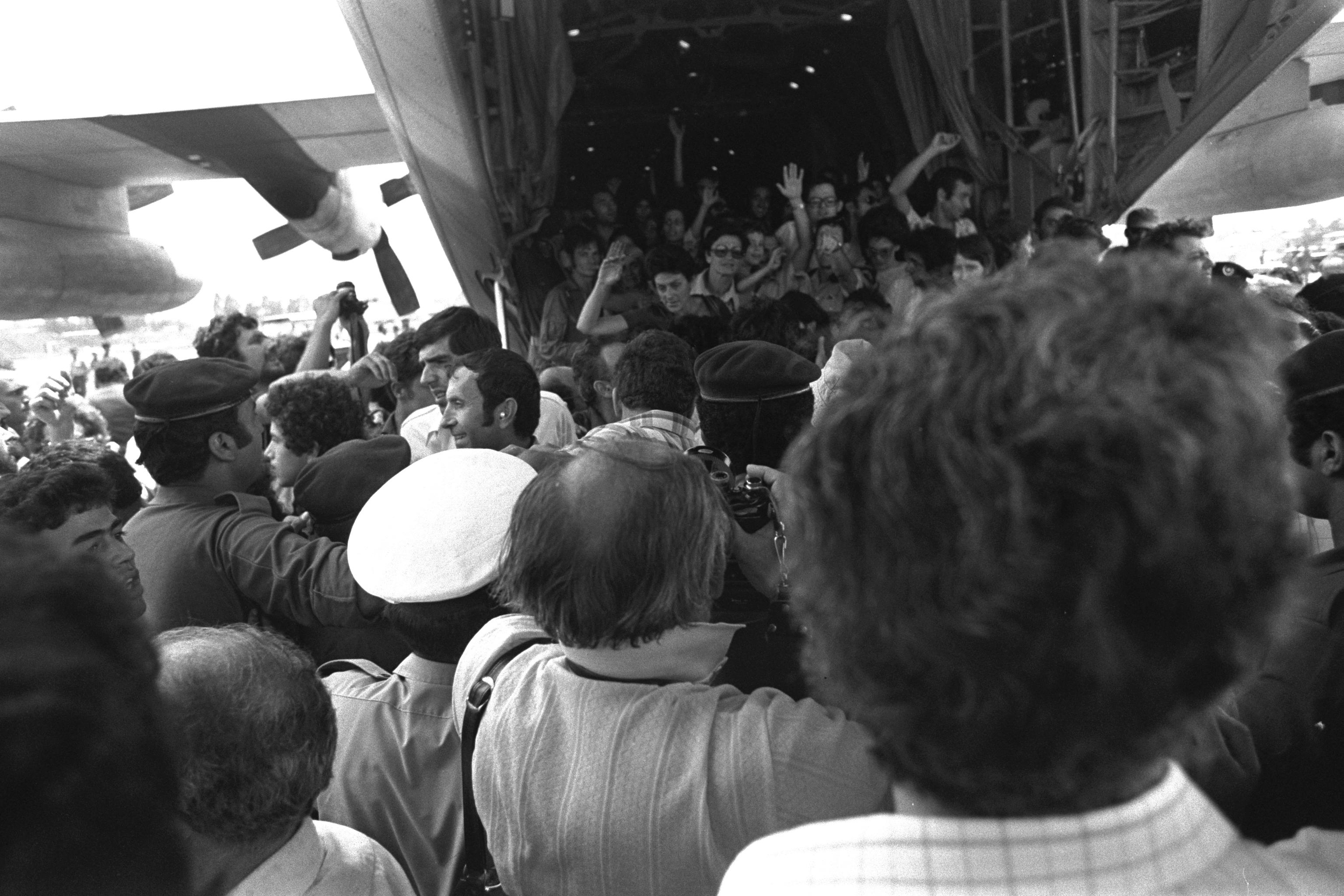 Rescued Air France passengers wave to the waiting crowd while leaving the belly of the Hercules plane at Ben-Gurion Airport. ניצולי אנטבה יורדים מבטן מטוס ההרקולס שהחזירם לאדמת ישראל Photo: MOSHE MILNER, 07/04/1976